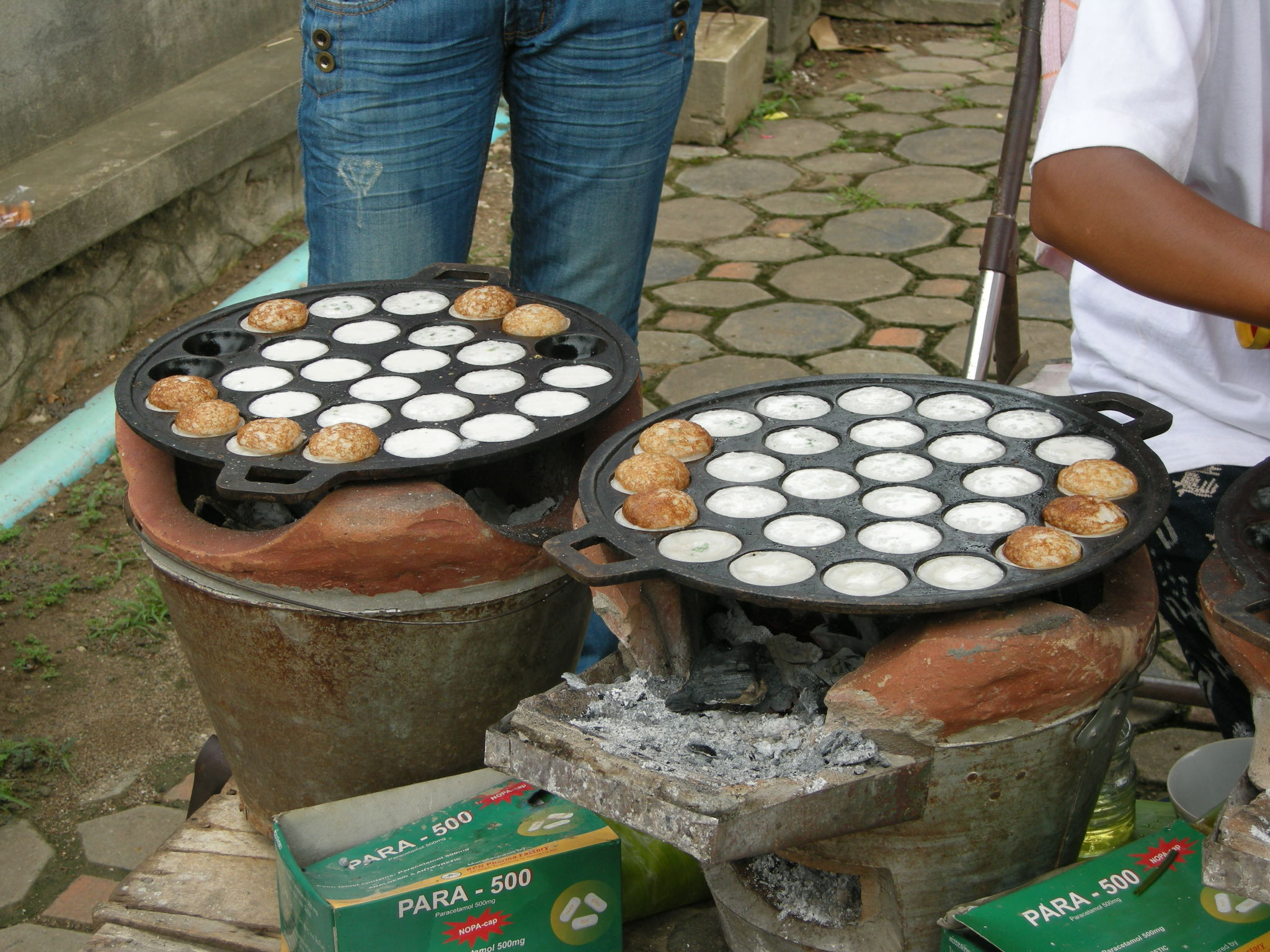 Rice and coconut milk snacks in Luang Prabang, Laos